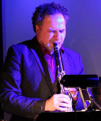 David Krakauer at Winter Jazzfest on January 12, 2013